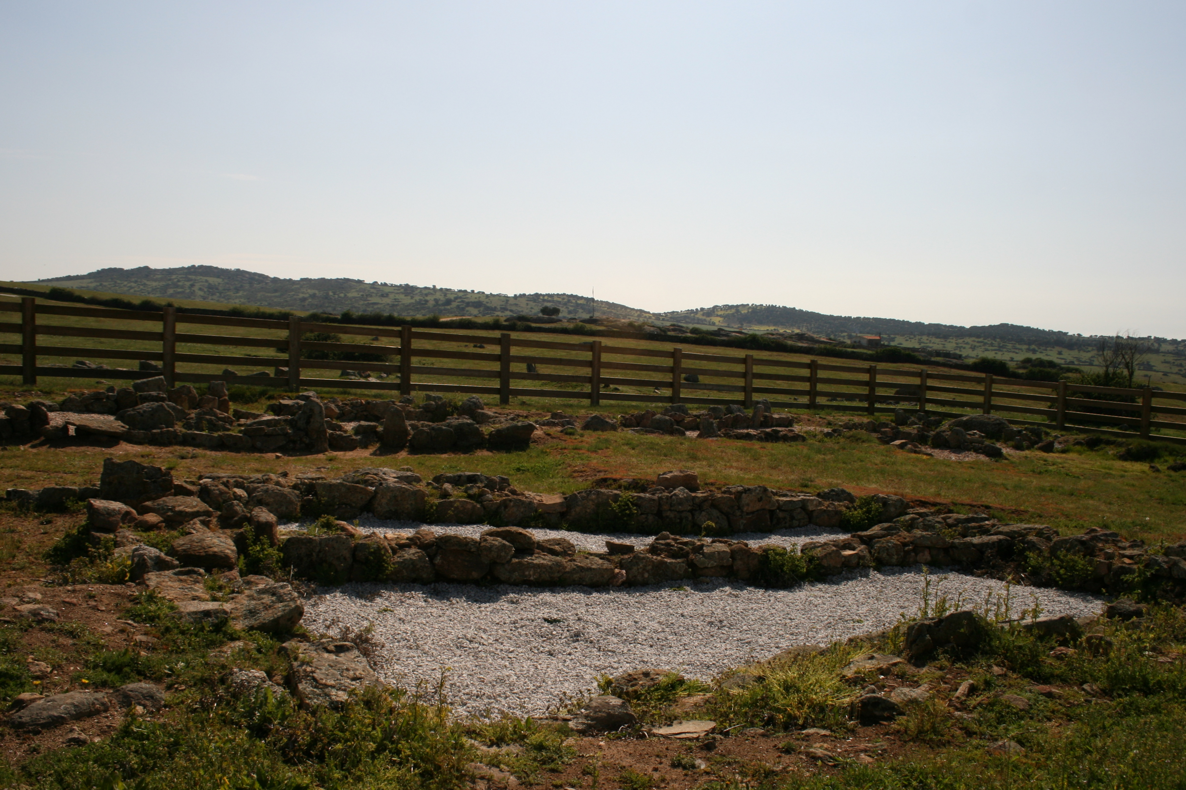 Visigothic settlement 6th or 7th A.D. Dehesa de Navalvillar. Colmenar Viejo, Madrid. Spain.